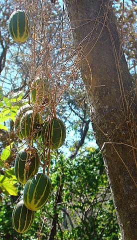 Dick Culbert: Polyclathra cucumerina hanging out in Nicaragua. Known as Calabaza Sylvestre, it is said to be vaguely edible, but very bitter. It has become somewhat of a weedy pest in coffee plantations over its range from southern Mexico to Panama.